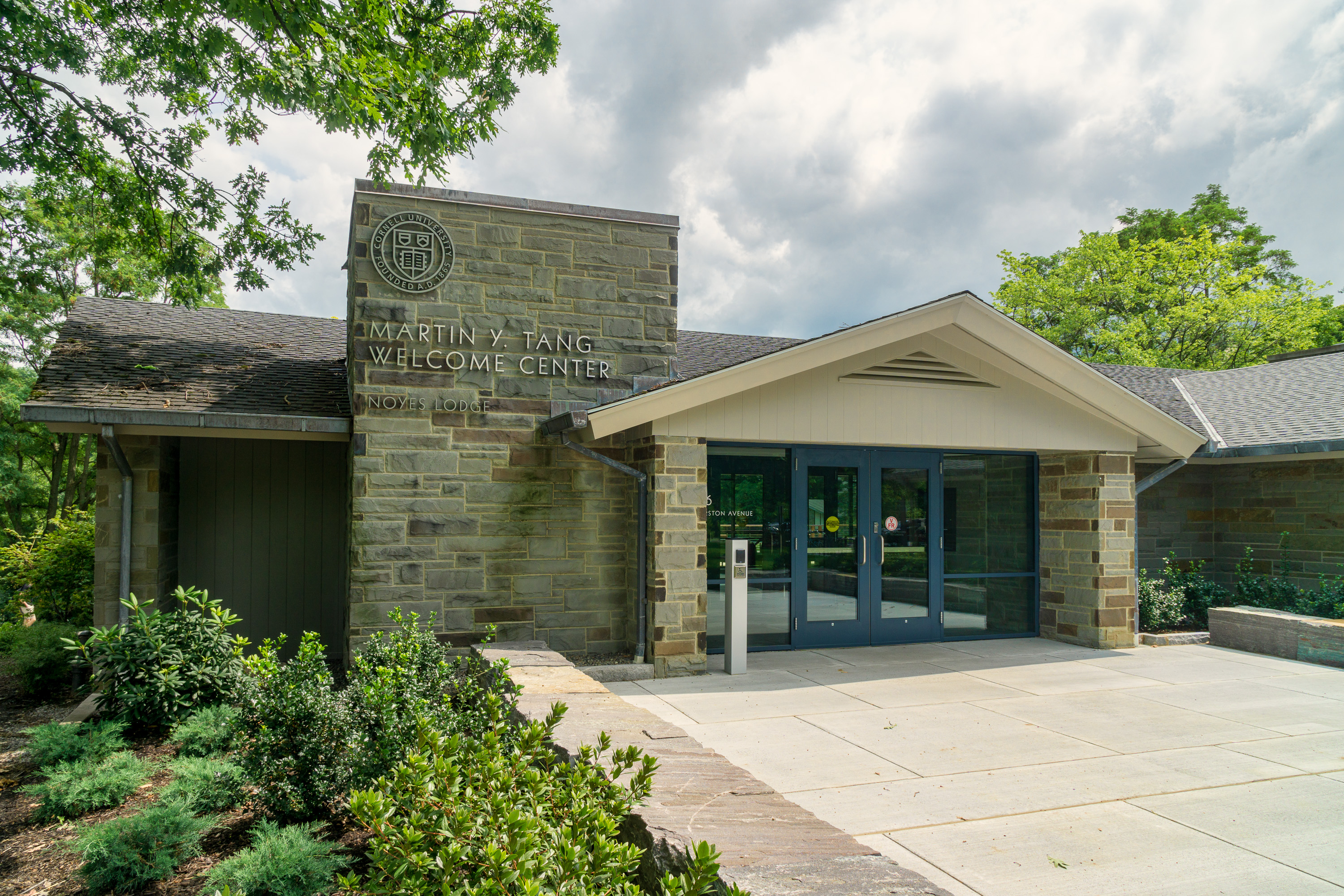 Martin Y. Tang Welcome Center at Noyes Lodge, opened 2018. Cornell University North Campus, Ithaca, New York